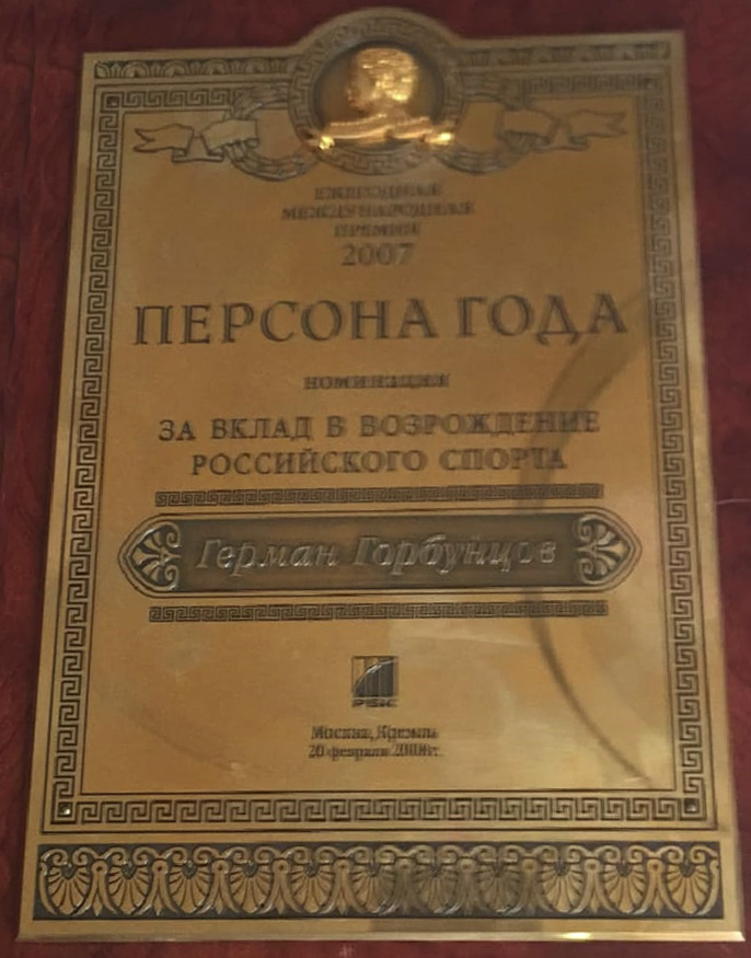 RBC award